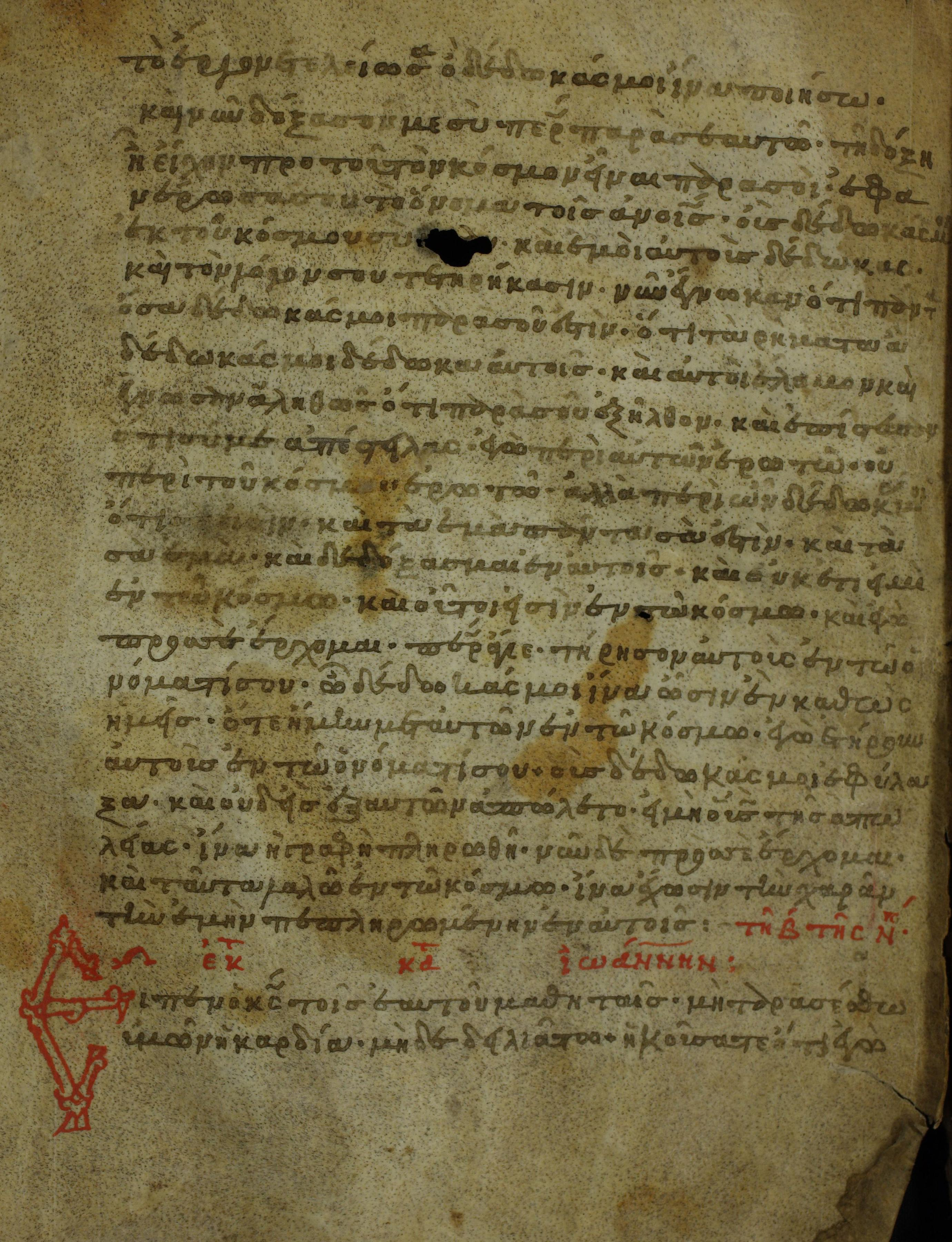 Folio 1 verto